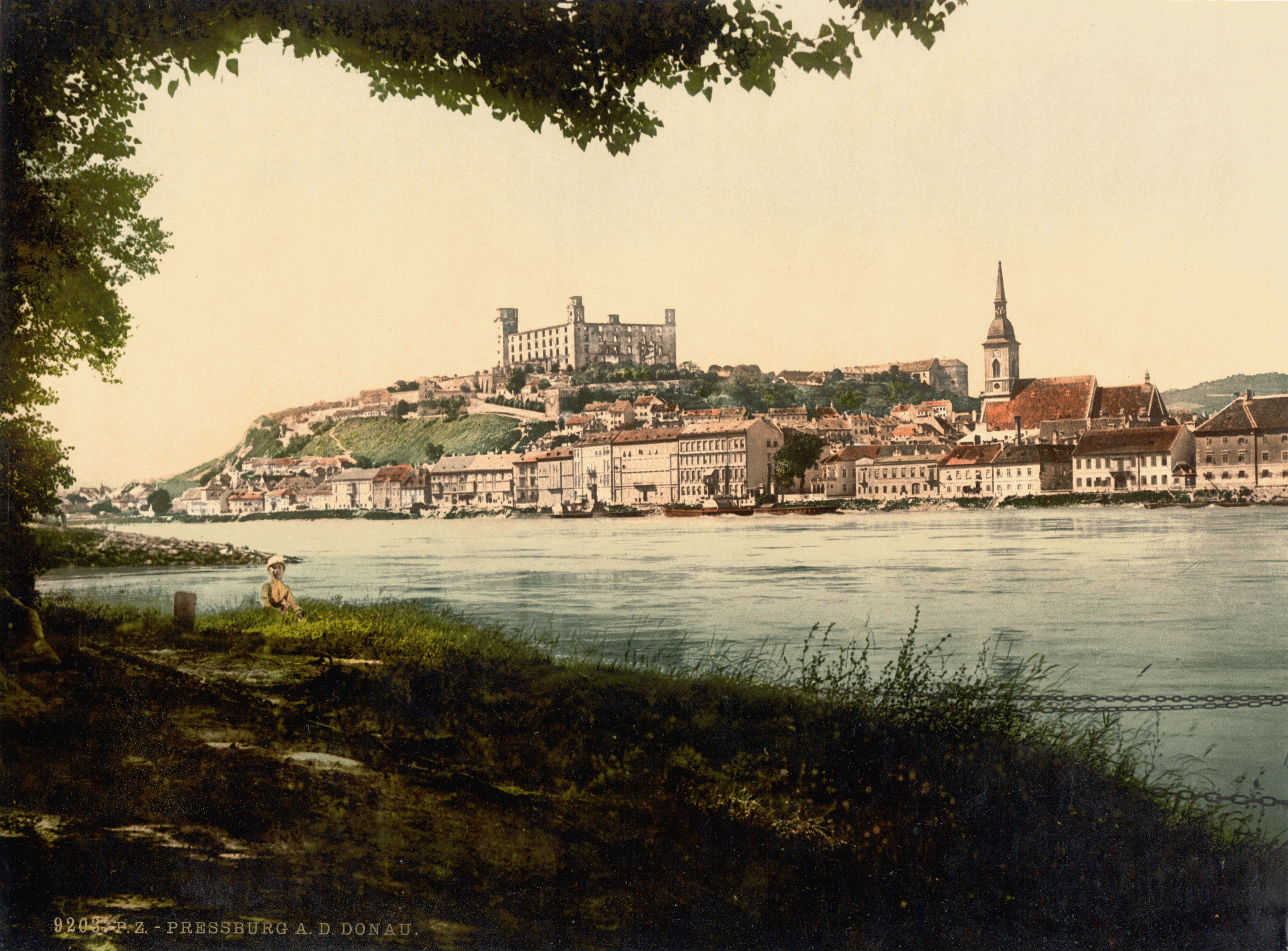 View of Pressburg in 1900, at that time part of Transleithania / Austria–Hungary, nowaday Slovakia / EU. Imprint: "9203 P.Z. PRESSBURG A.D. DONAU."